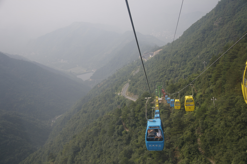 Cable cars in East Tianmu Peak, Zhejiang, China. July 22, 2009.